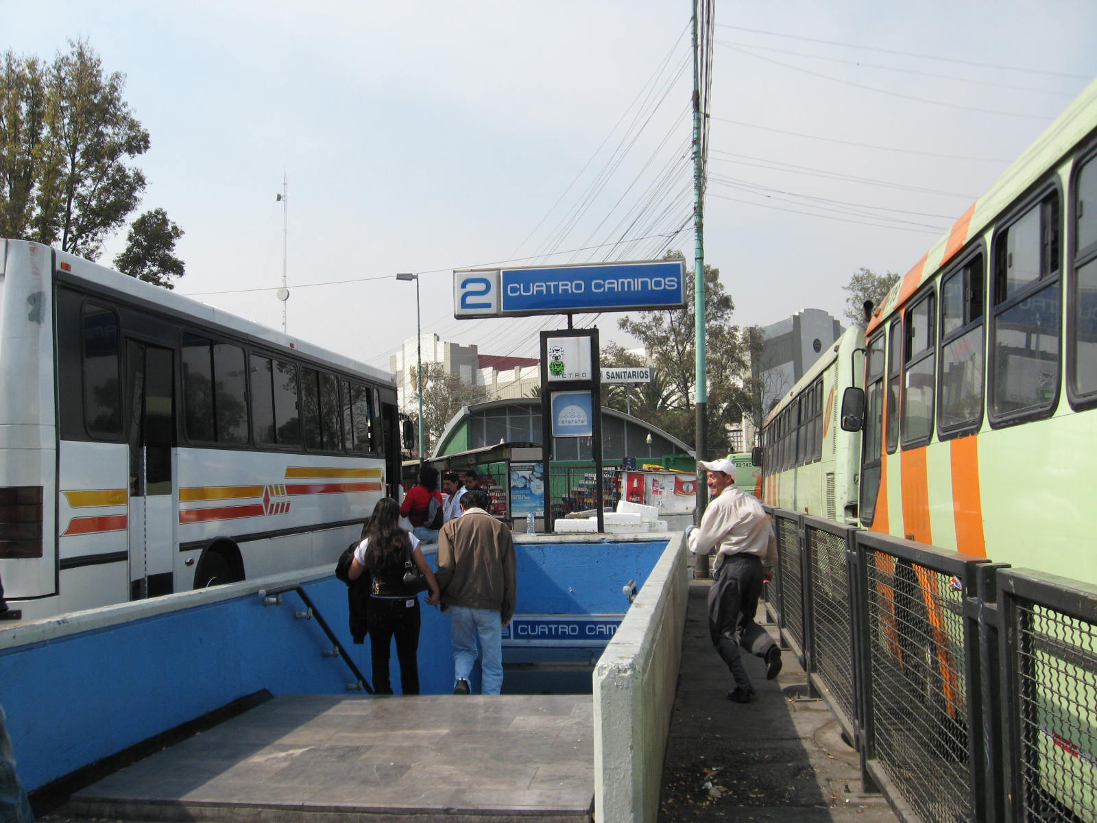 Entrance to Mexico City Metro Station Cuatro Caminos from the local bus terminal.